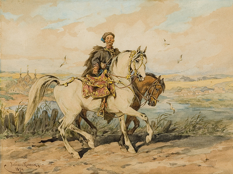 Cossack with spare horse, 1894 watercolour, paper